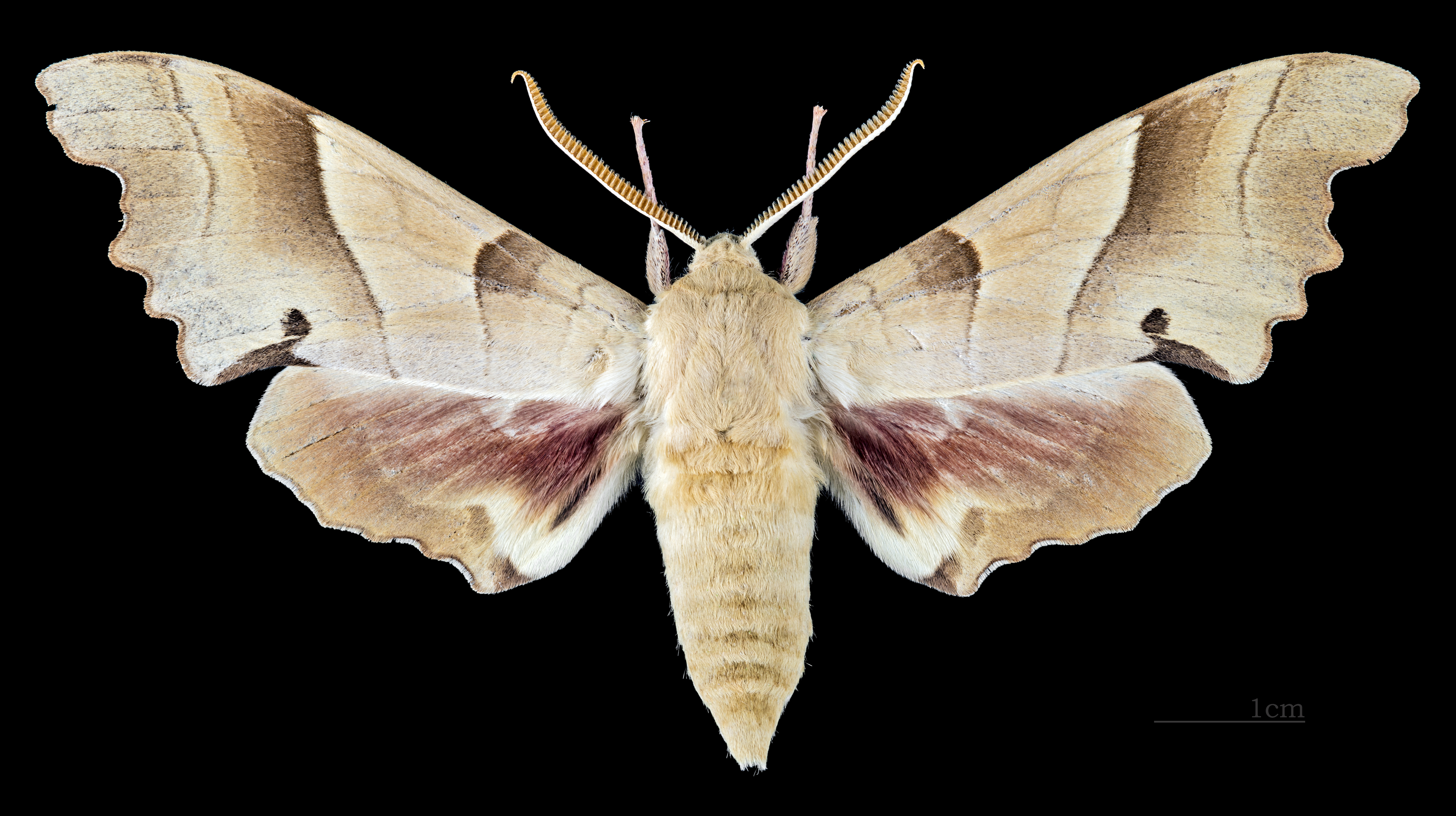 Marumba quercus - Dorsal side Collection of the Mathematician Laurent Schwartz